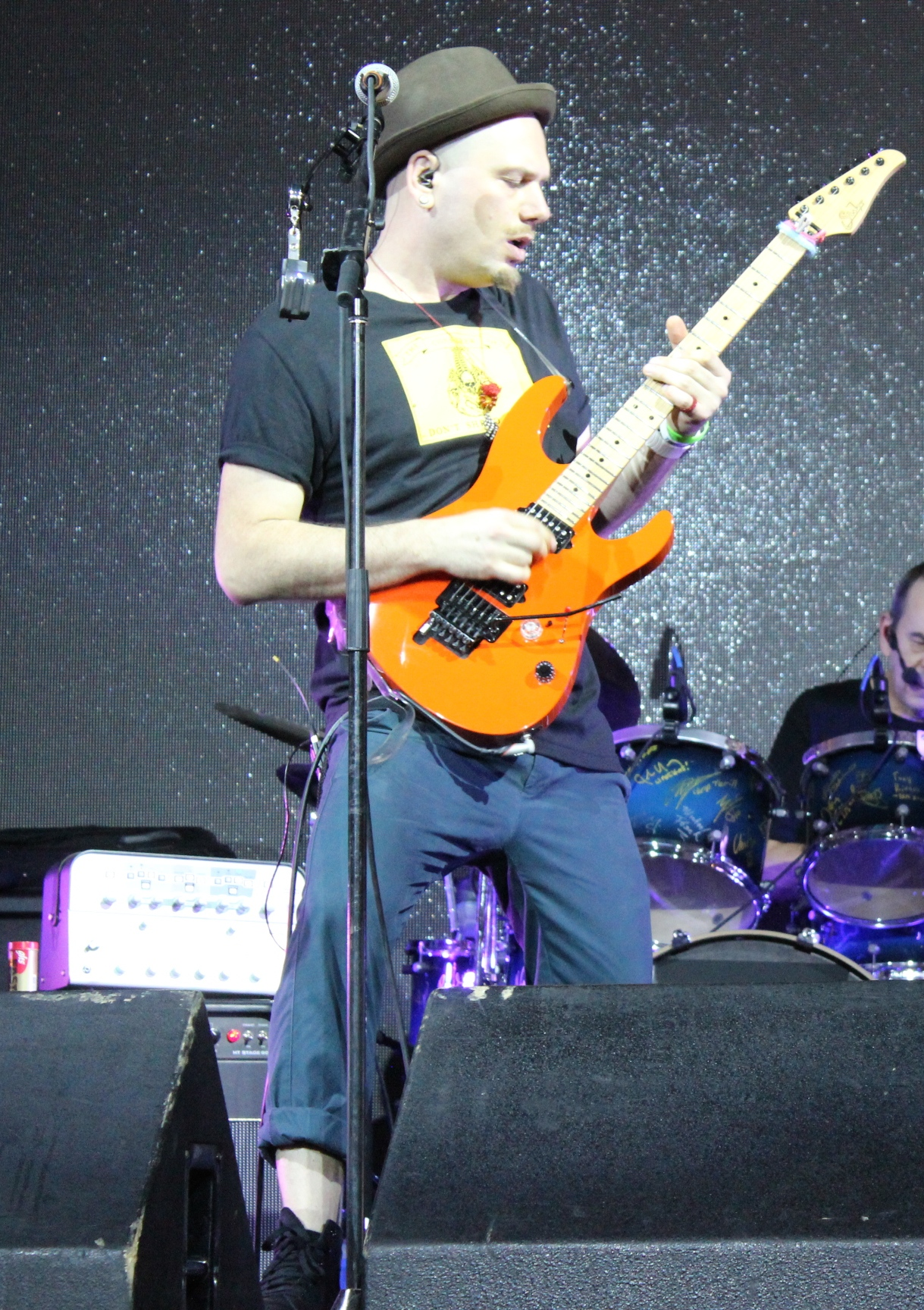 Niko Tsonev playing a solo on the guitar during performance with Lifesigns on Cruise To The Edge 2015